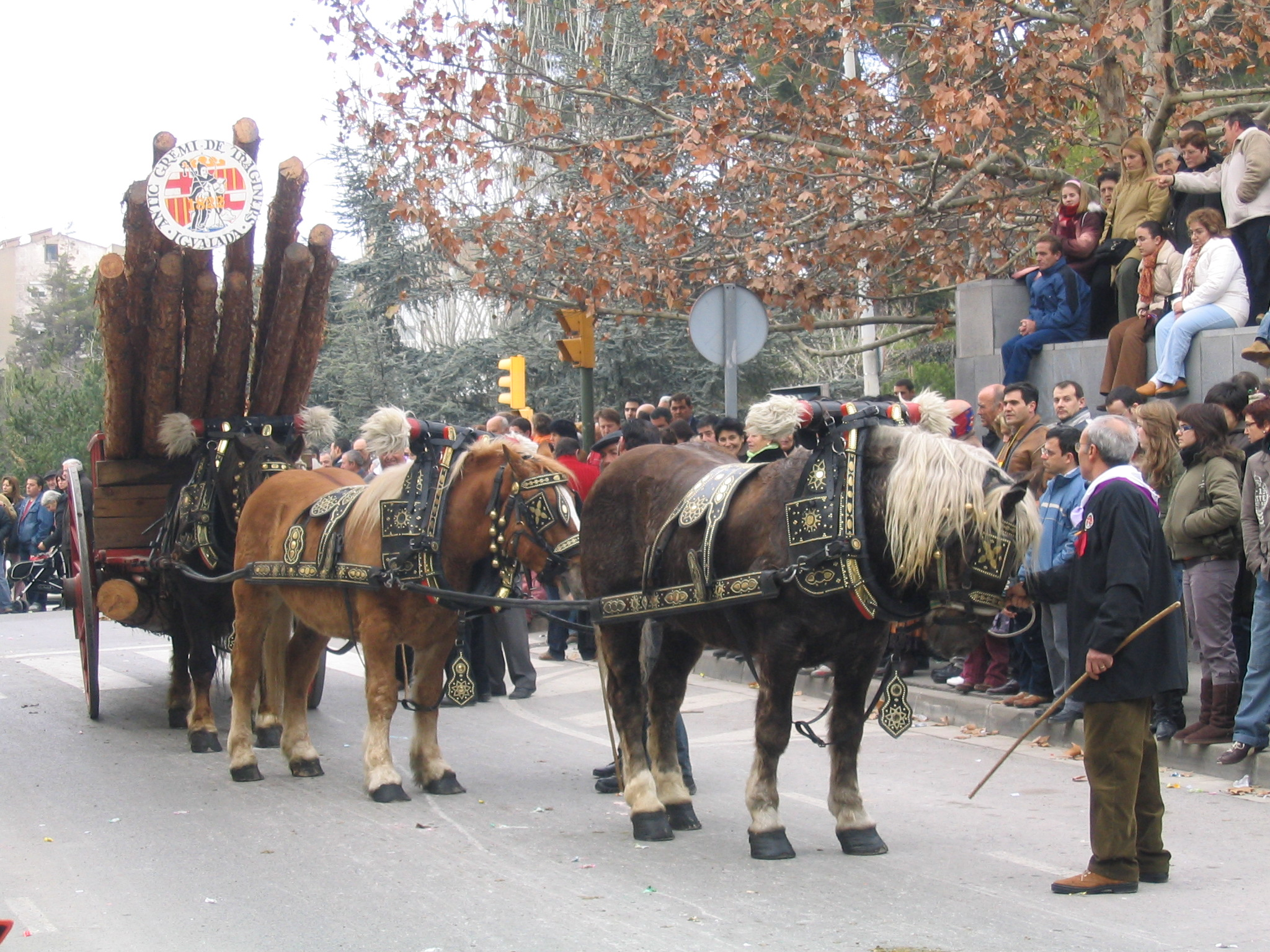 Tres Tombs - Igualada 22-01-2006